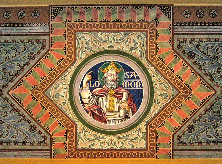 The Lutheran Ascension Church at Augusta Victoria Foundation, Jerusalem; ceiling within Ascension Church.